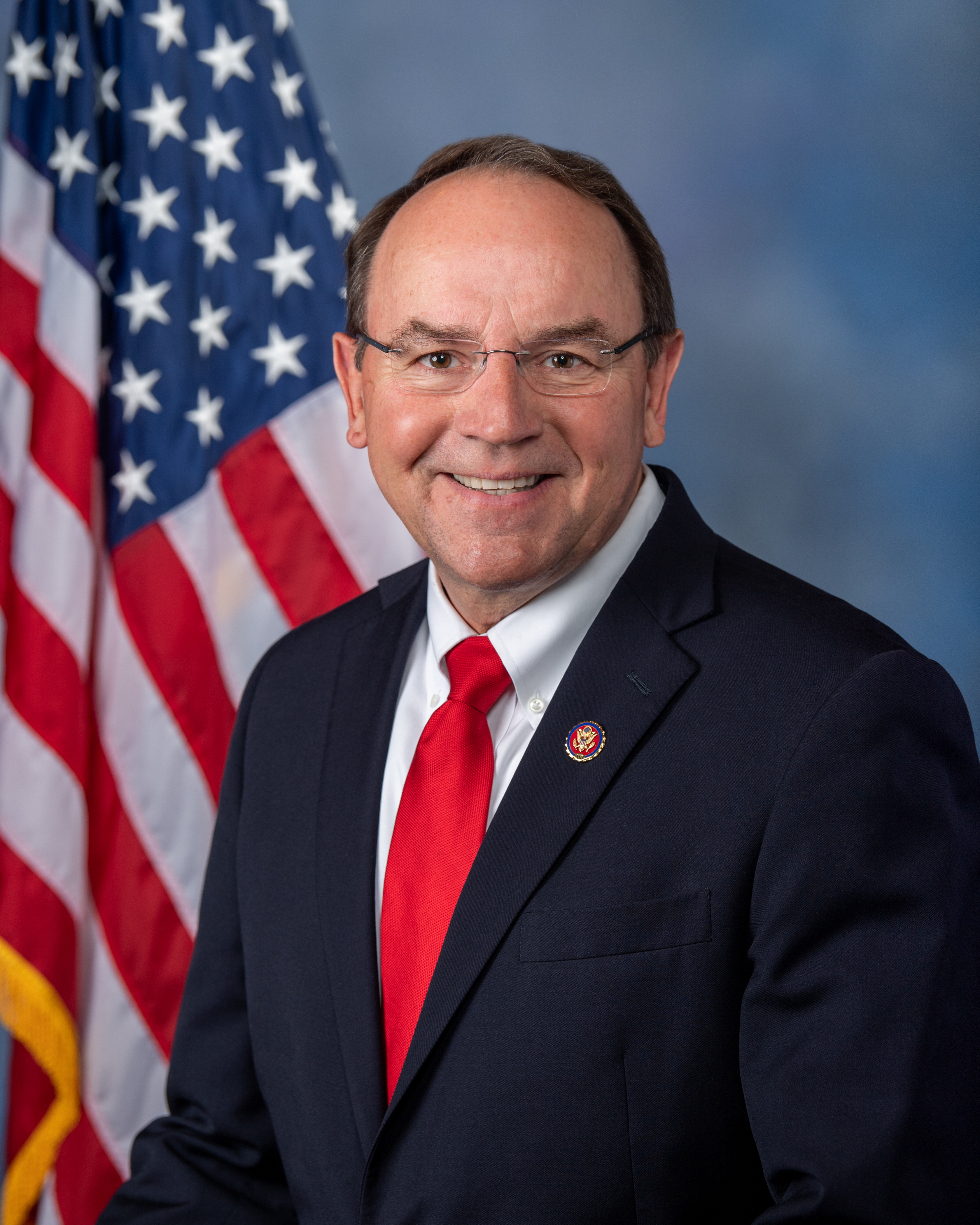 Photo of Rep. Tom Tiffany (R-WI07)